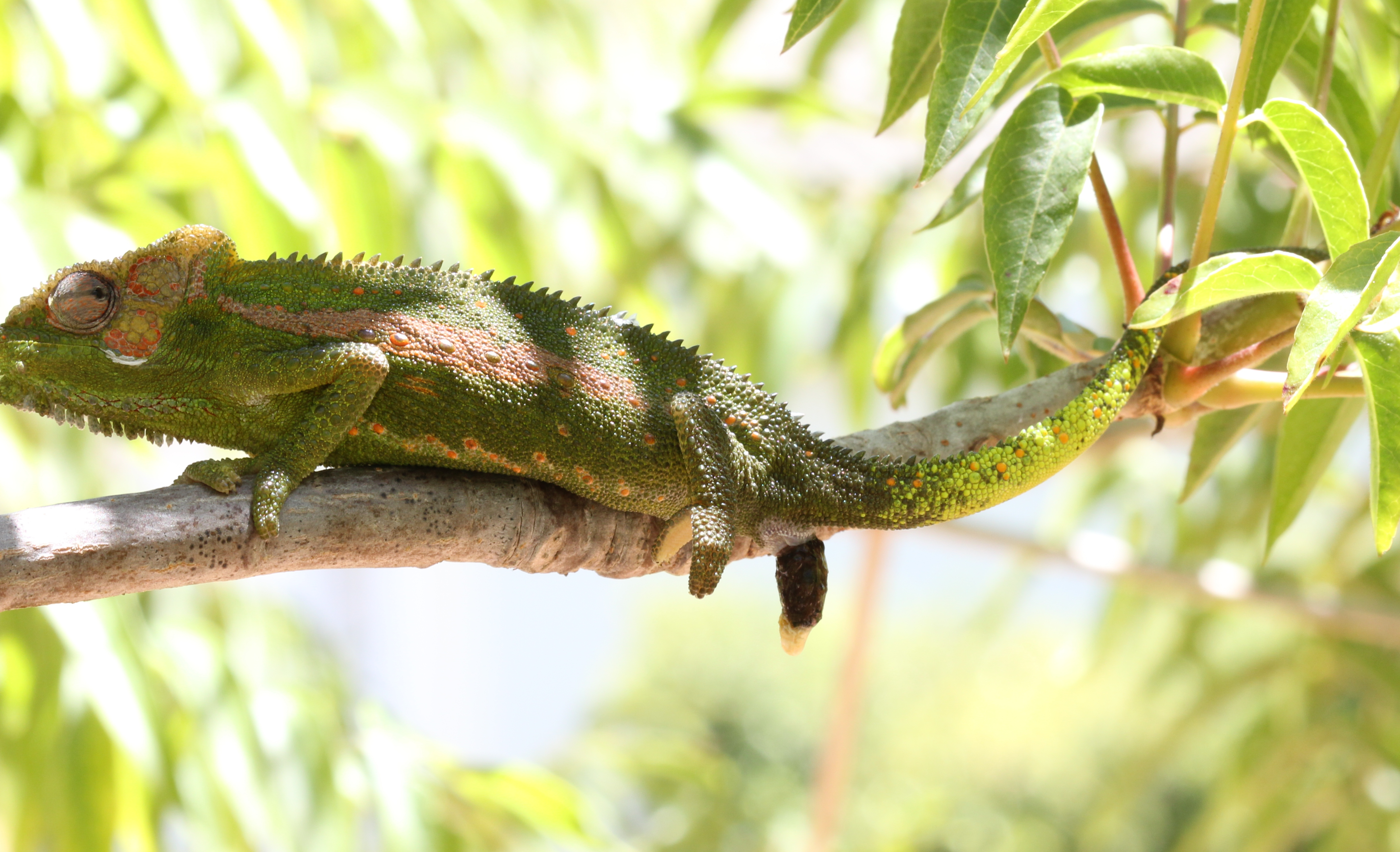 Cape Dwarf Chameleon Bradypodion pumilum in act of defecation, showing arrangement of claws on fore and hind feet.